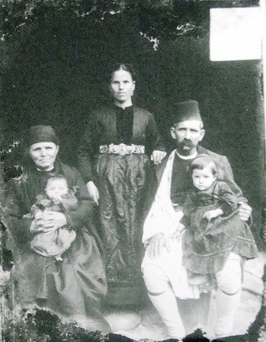 Ilinden voivode Sterjo Apostolina with his family. Perivoli 1912 This media file is produced by Wikipedian in Residence in Category:Wikipedian in Residence at DARM in 2016.